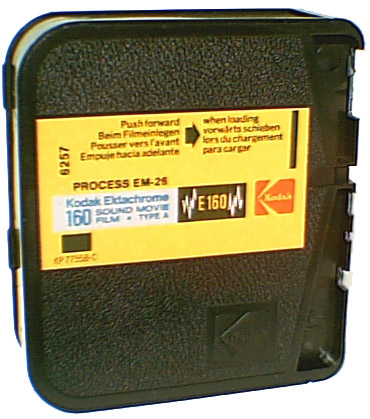 Sound Super 8 cartridge of Ektachrome 160 A.